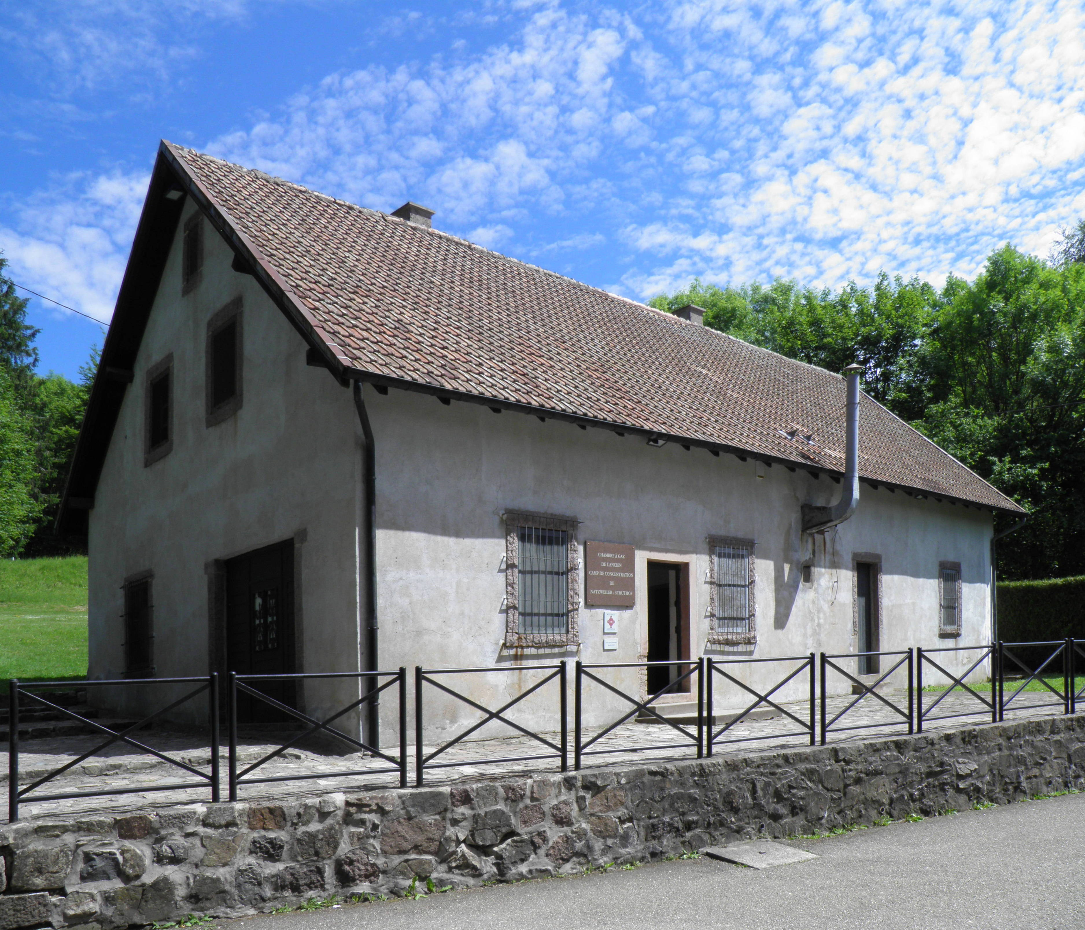 Gas chamber in camp Natzweiler-Struthof (Natzwiller, Bas-Rhin, France).